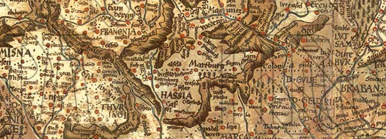 Map of Europe drawn by Martin Waldseemueller dedicated to godly Emperor, the devotional the beatifical great Charles V (Emperor of the Holy Roman Empire 1519–1556); Map has south direction on top edge of the sheet, scanned map got stamped and watermarked.